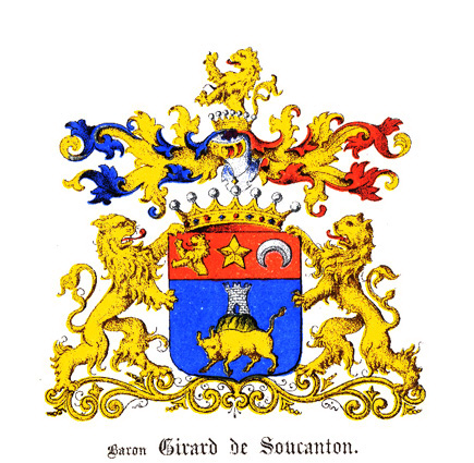 Coat of arms of Girard de Soucanton